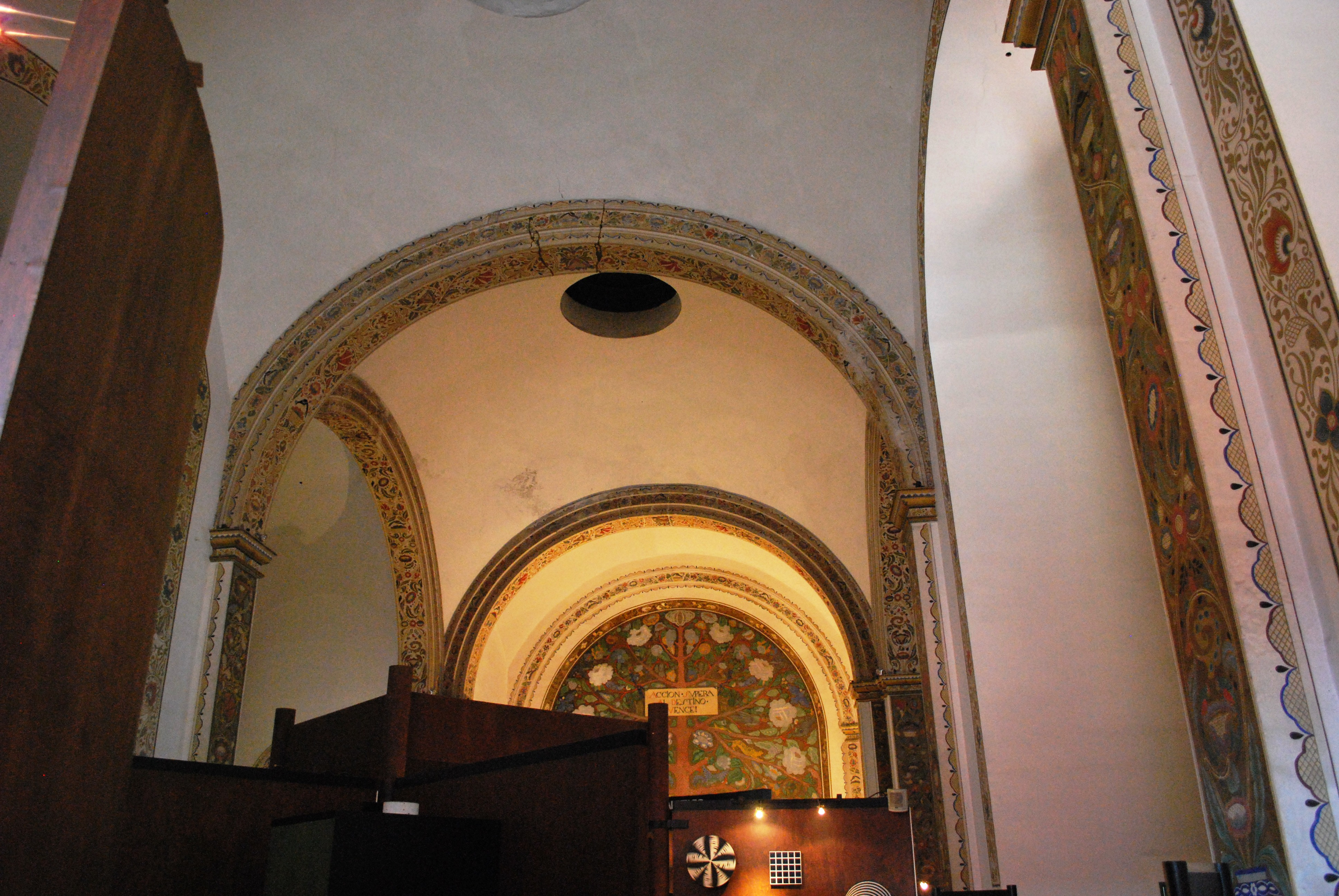 View of ceiling upon entering the Museo de la Luz (Museum of Light) in the historic center of Mexico City.